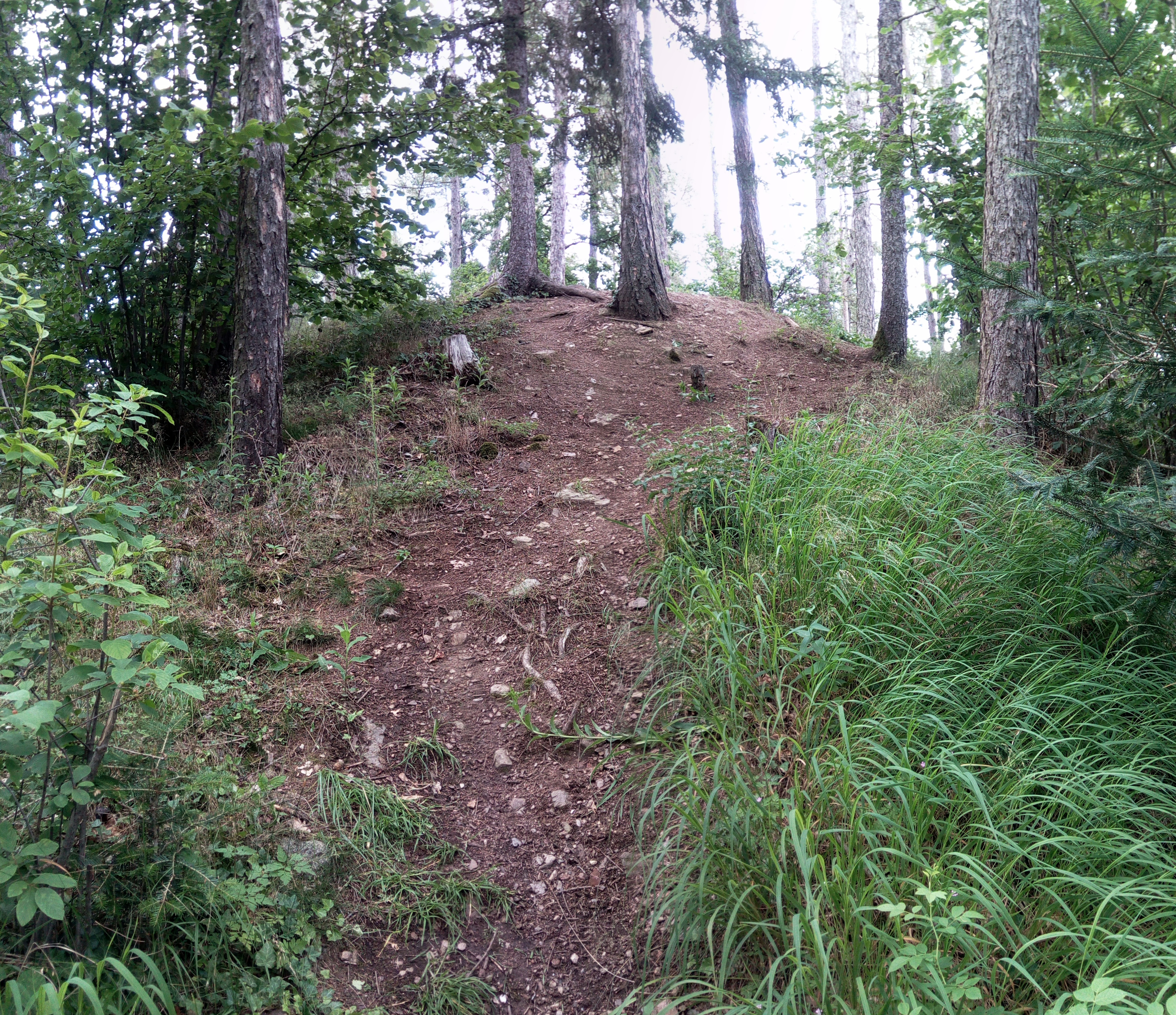 Kamenná věž, a ruin of a castle in an ancient settlement in South Bohemian Region, Czechia